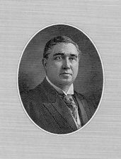 Former Senator Asbury Latimer.